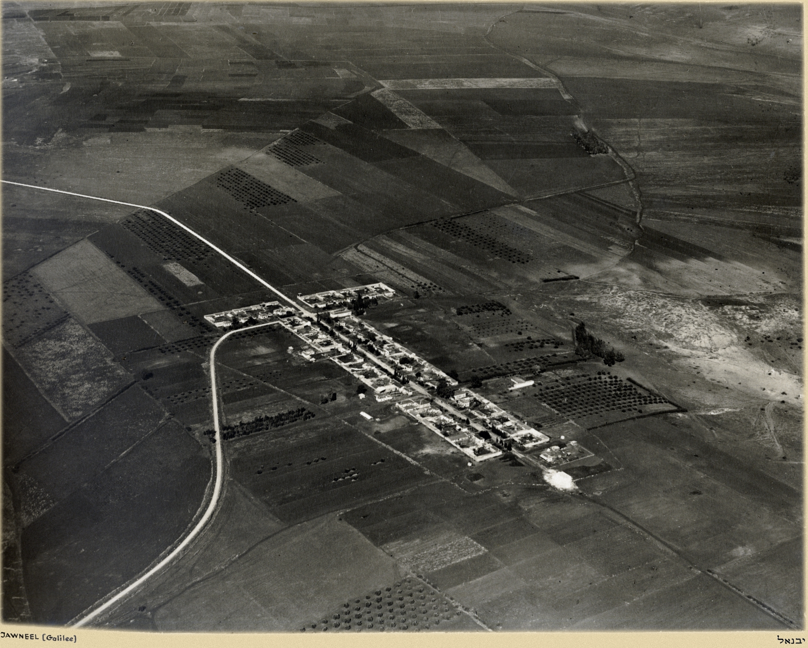 Z. Kluger. Erez Israel from the air - 1937-38